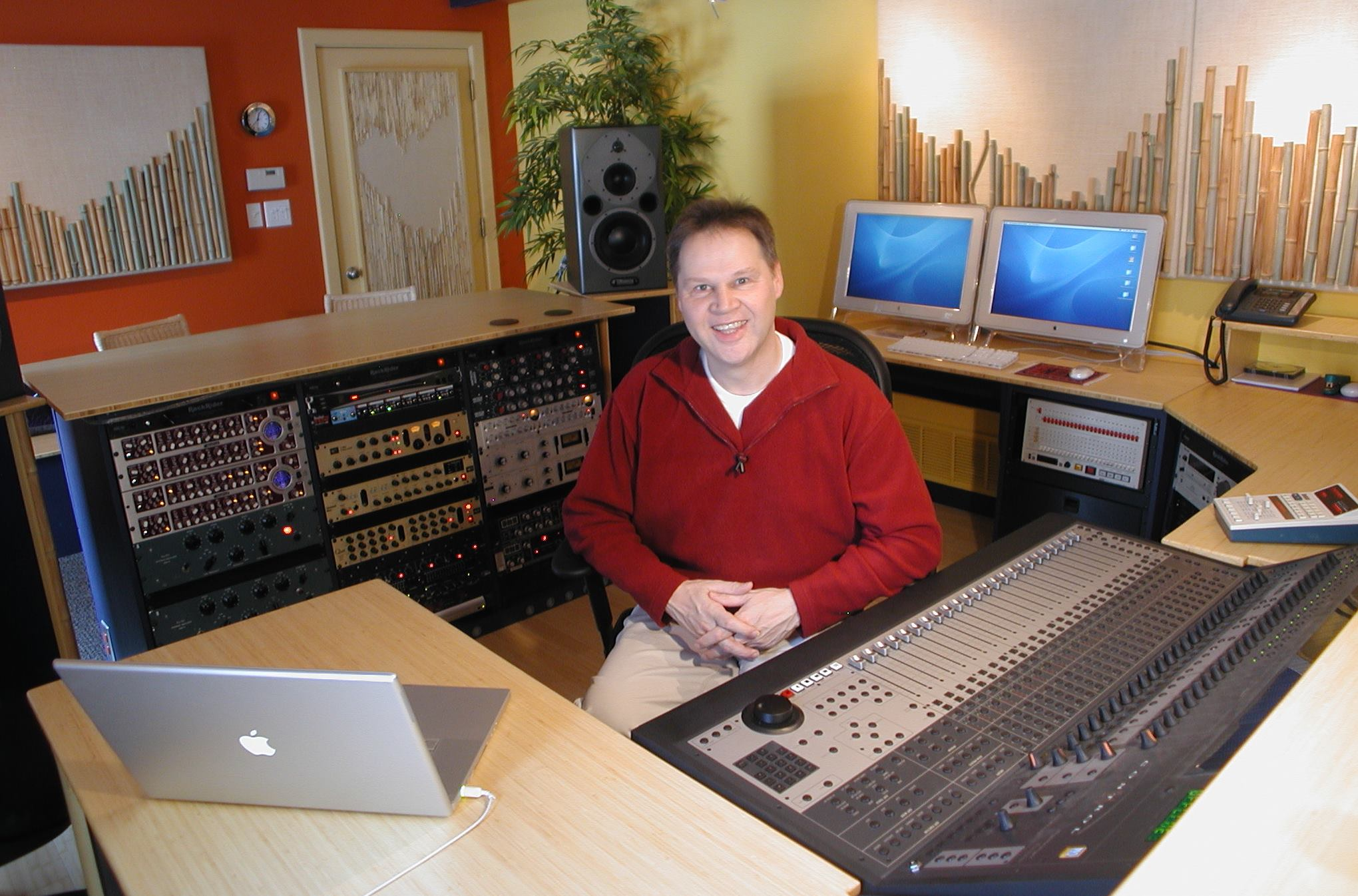 Erwin in his studio the Bamboo Room